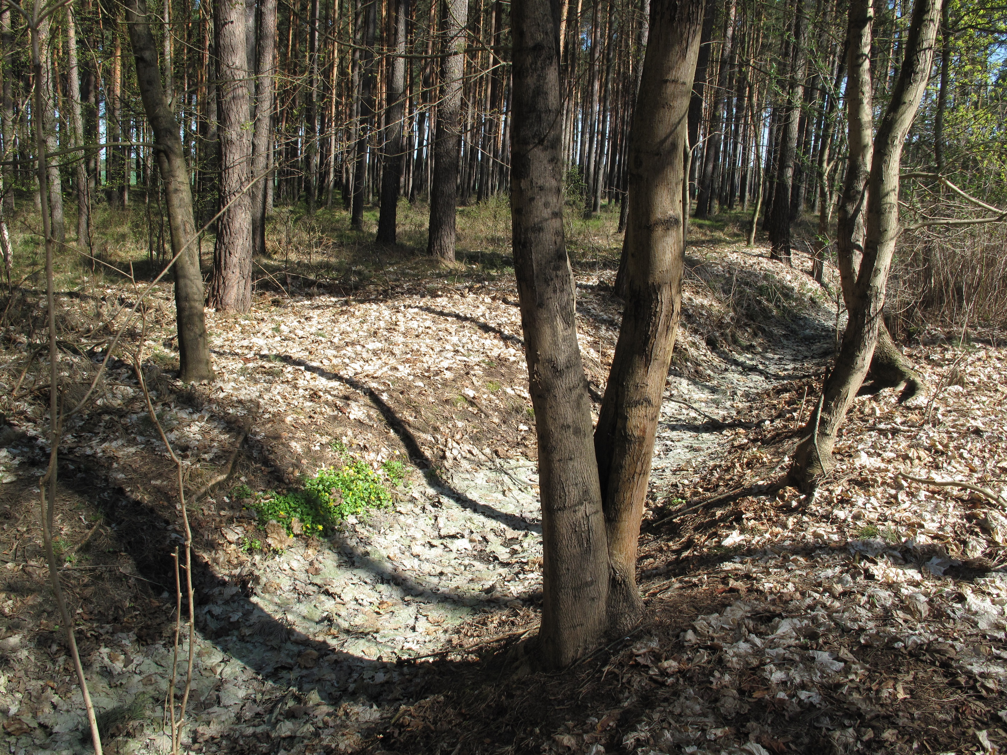 Dry Schwenowseegraben (stream) in the north of the Reichardtsluch. The Reichardtsluch (other spellings: Reichardsluch, Reichards-Luch) is a Luch in Limsdorf, a part (german: Ortsteil) of the town Storkow in the District Oder-Spree, Brandenburg, Germany. It is situated in the Dahme-Heideseen Nature Park. The Luch is a part of the Natura 2000-area Schwenower Forst Ergänzung (Schwenower Forst supplement), which belongs to the Natura 2000-area und protected area Naturschutzgebiet Schwenower Forst. It is protected for its amphibian conservation. The Reichardtsluch is flown by the Schwenowseegraben.